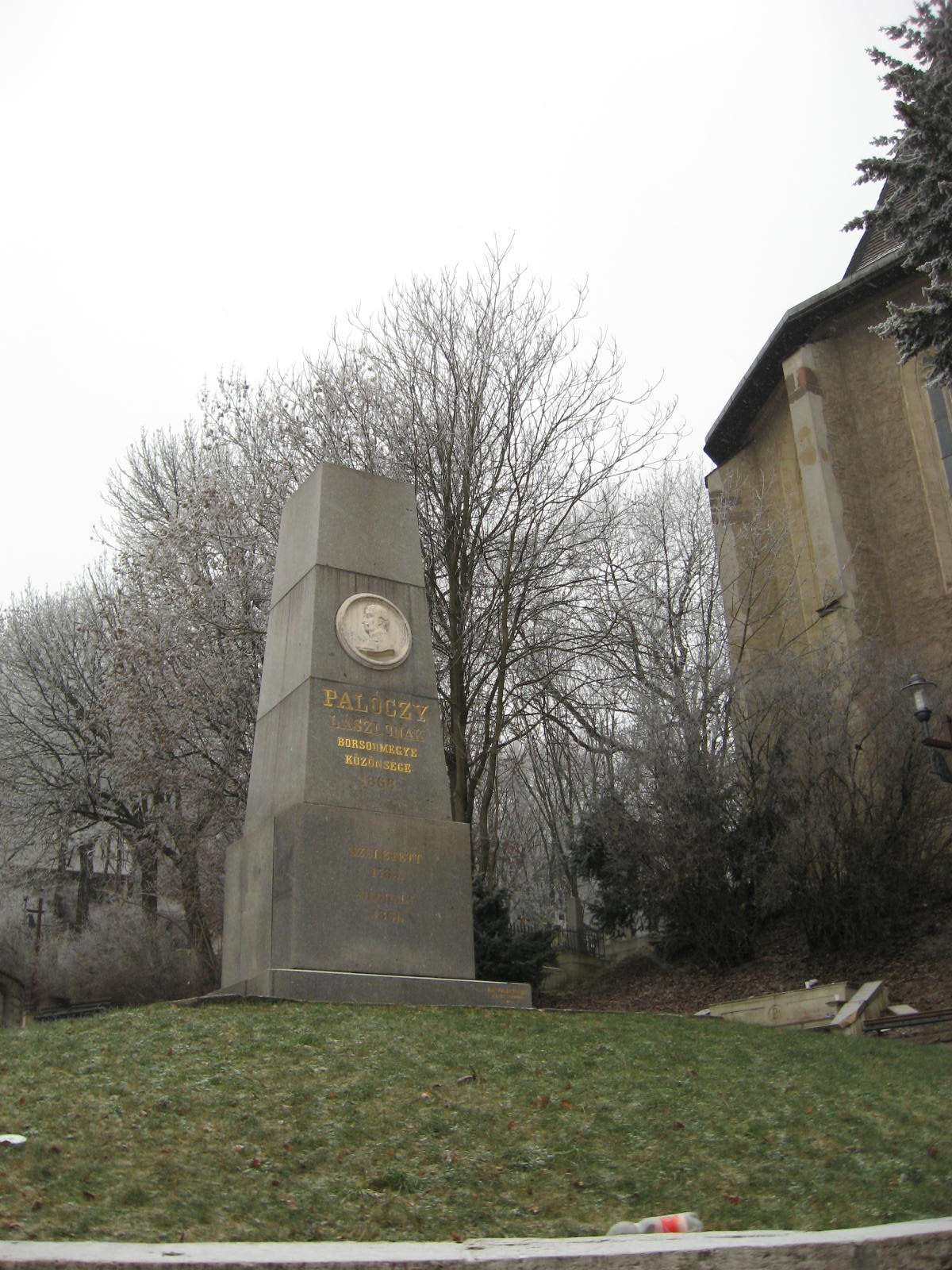 Monument of László Palóczy in Miskolc